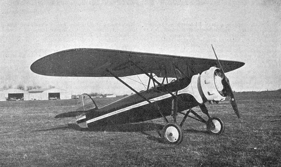 SIM-X photo from L'Aerophile June 1938